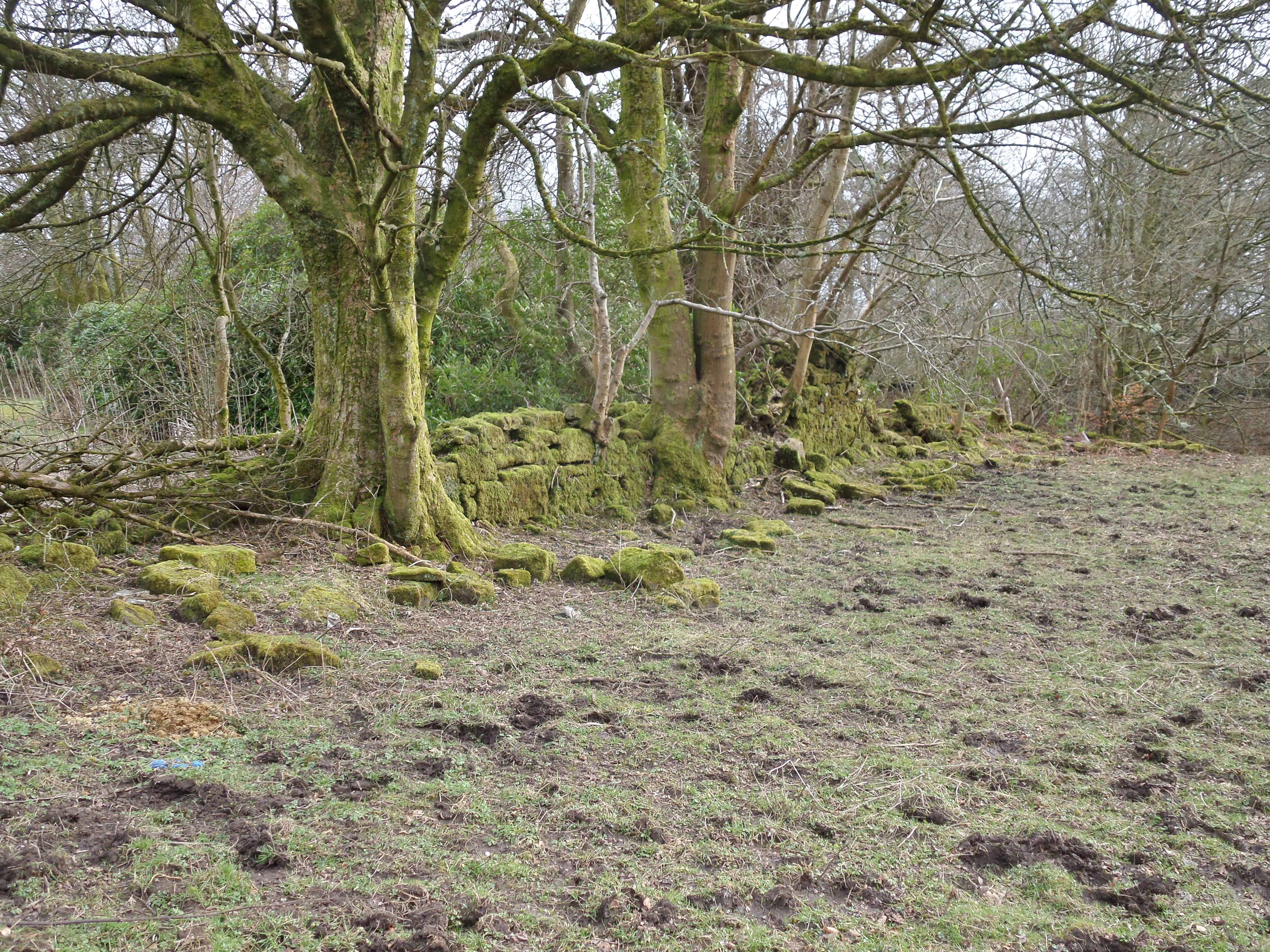 Kilbirnie Place - upper walled garden ruins. North Ayrshire, Scotland.